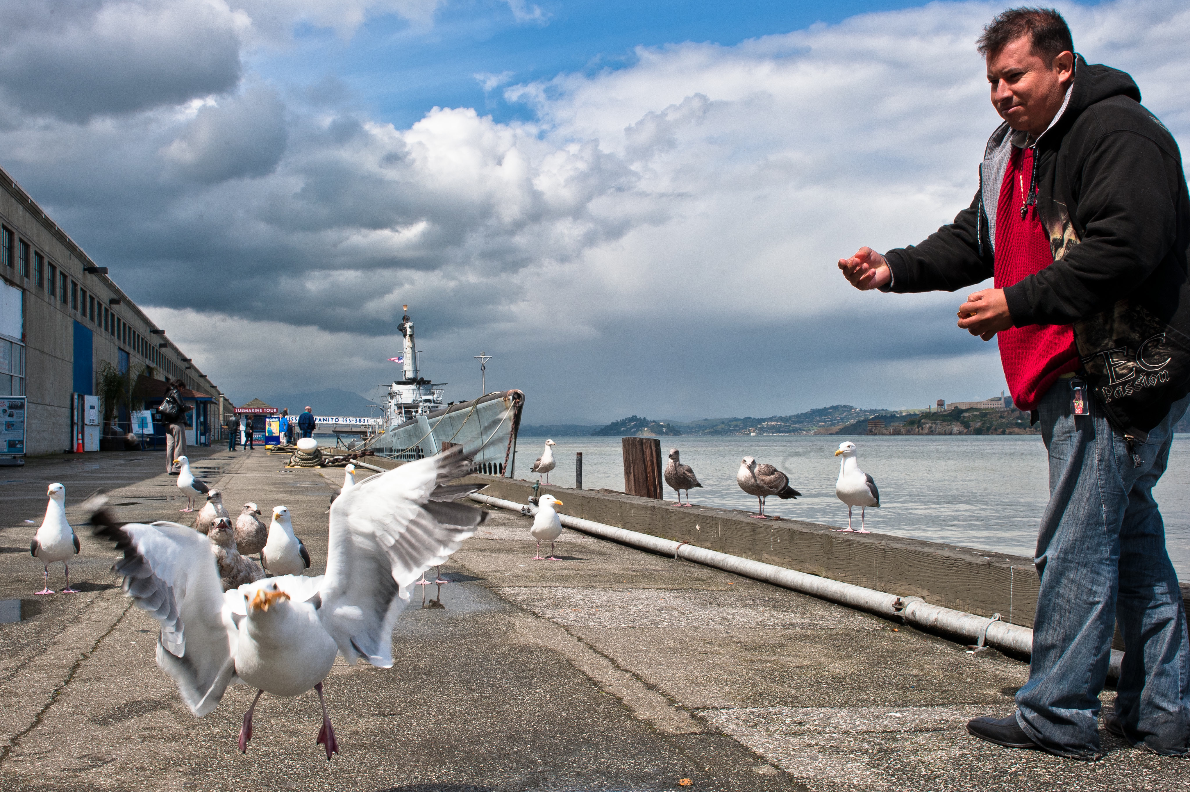 Catching a snack. Picture taken near Fisherman's Wharf, San Francisco, with Alcatraz visible on the right.